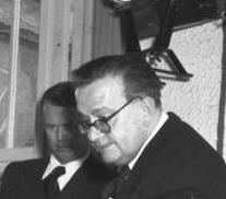 Ernst Melsheimer at the "Hildebrandt Trial" (1952)